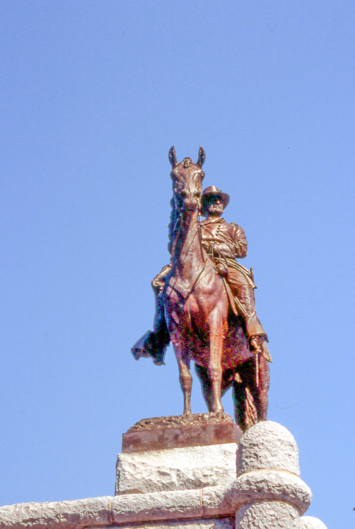 20020727 07 Ulyses S Grant statue, Lincoln Park Chicago